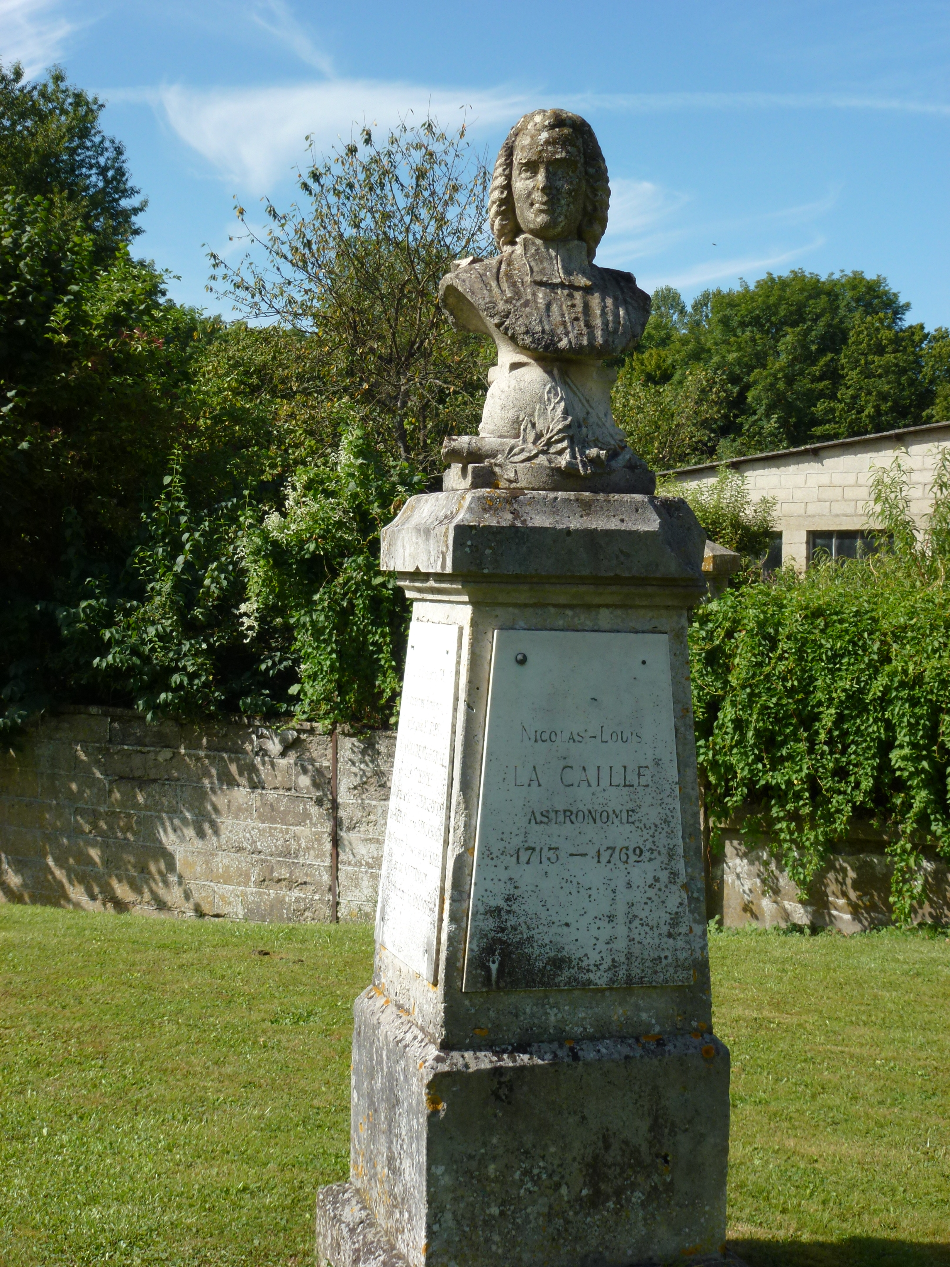 Rumigny (Ardennes) buste de l'astronome La Caille